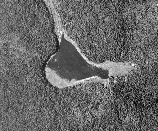 Lake Rose as seen from the air in 1939. The lake was drained in the 1950s and now resembles a swamp.